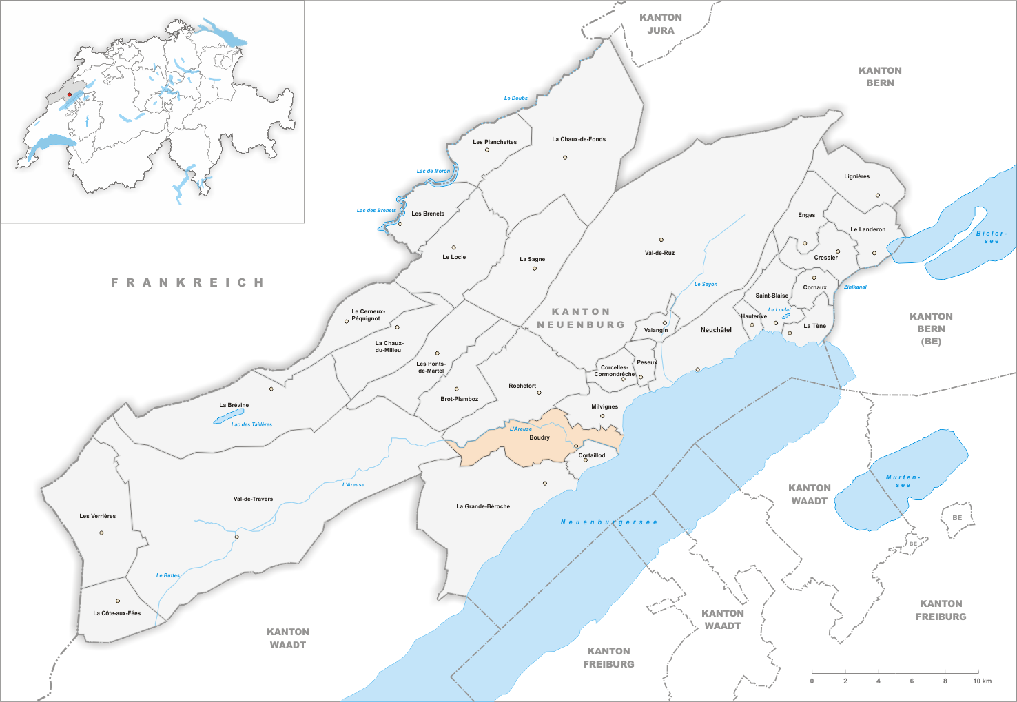 Municipality Boudry